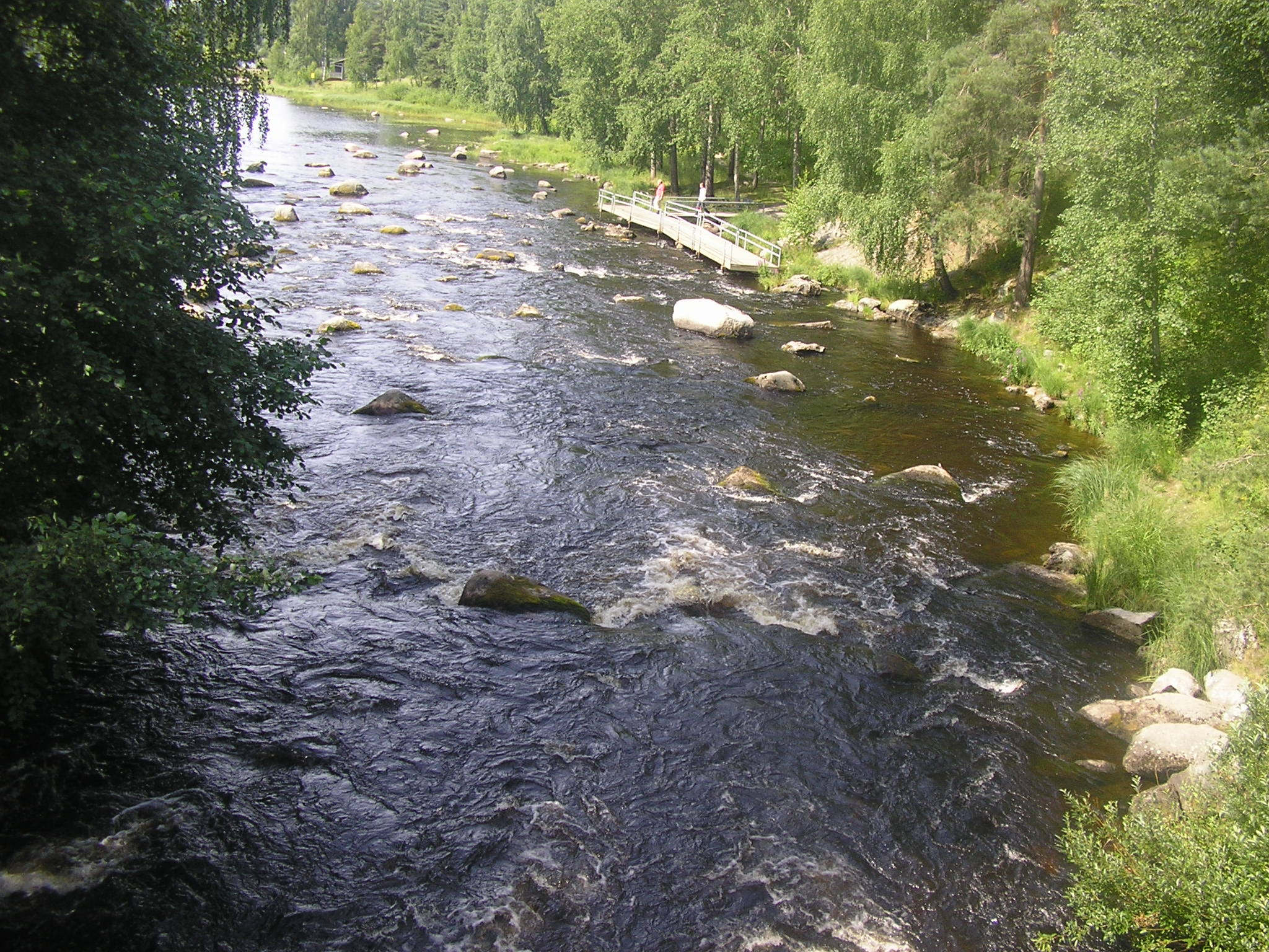 Vilppulankoski in Vilppula, Finland